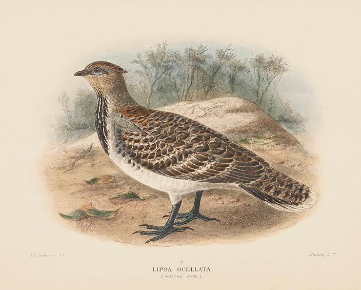 Plate from 'The Birds of Australia' by Gregory Mathews; illustrated by Keulemans. Author of the illustration deceased more than 70 years.